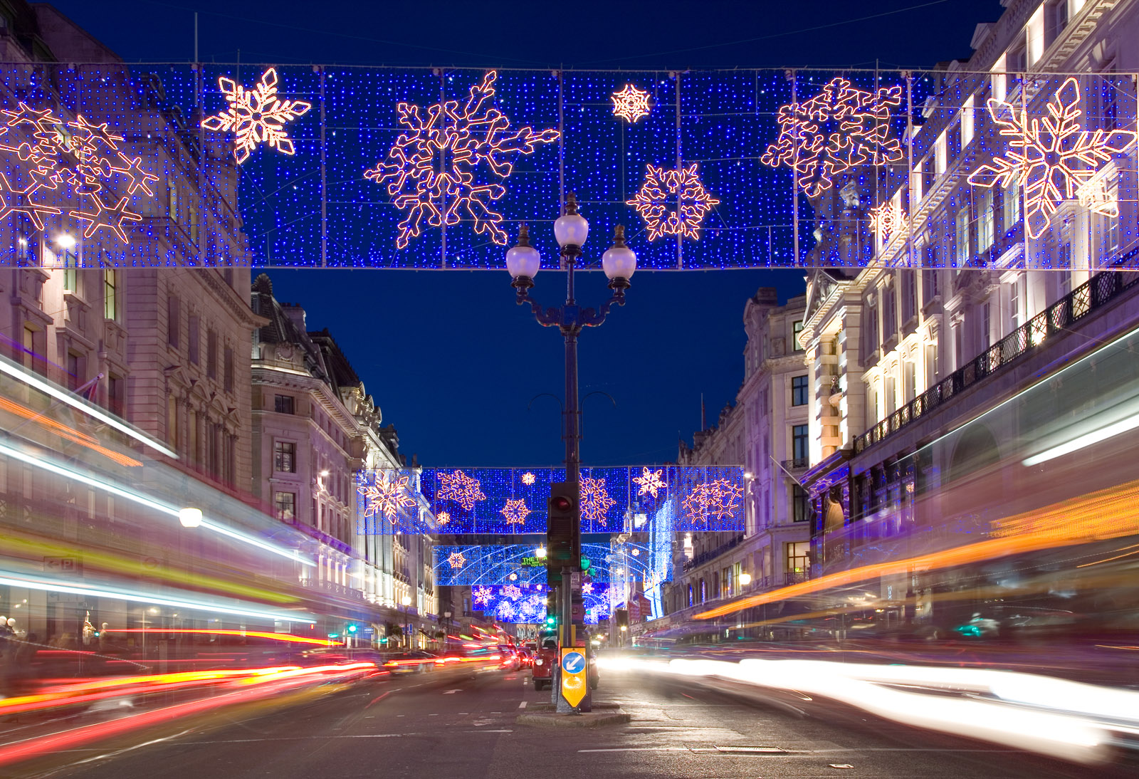 A long exposure (2.5s) on Regent Street, London, England showing the 2006 Christmas Lights.